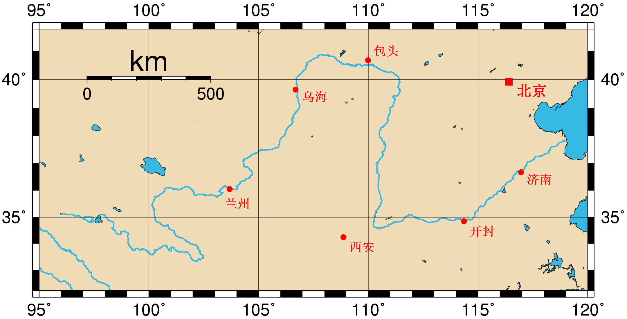 Map of the Huang He and the location of major cities along its course. This map was generated using the Generic Mapping Tools (GMT). The city coordinates (longitude, latitude) used are: *103.6833 36.0500 Lanzhou *106.6833 39.6500 Wuhai *109.9833 40.6666 Baotou *114.3500 34.8500 Kaifeng *116.9600 36.6666 Jinan *108.8666 34.2500 Xi'an *116.4166 39.9166 Beijing